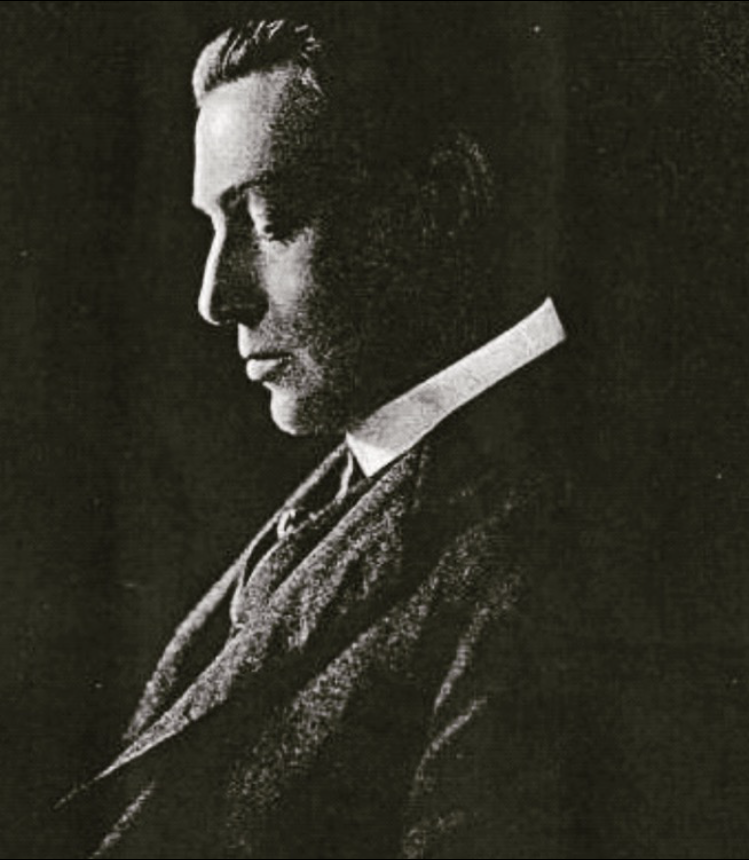 Charles Darling Parks